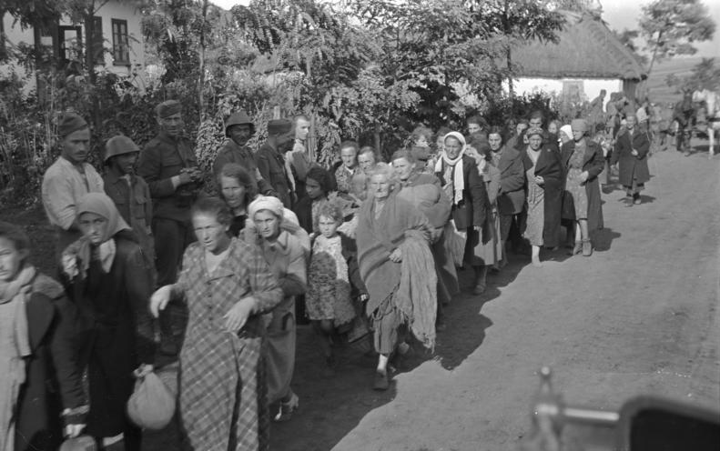 Russische Judenfrauen werden rückbefördert 17.7.1941 Information added by Wikimedia users.English (rough translation): Russia, deportation of Jews Russian Jewish women are rounded up. Wiki caption: "Deportation" is a Nazi euphemism for mass incarcerations of large numbers of people in concentration camps or ghettos, generally later followed by deliberate murder. What is happening here is a war crime and part of The Holocaust. This photograph is also important because the soldiers on the left of the line of women (and children) are not Germans, but Romanians, which can be determined from the style of their helmets.